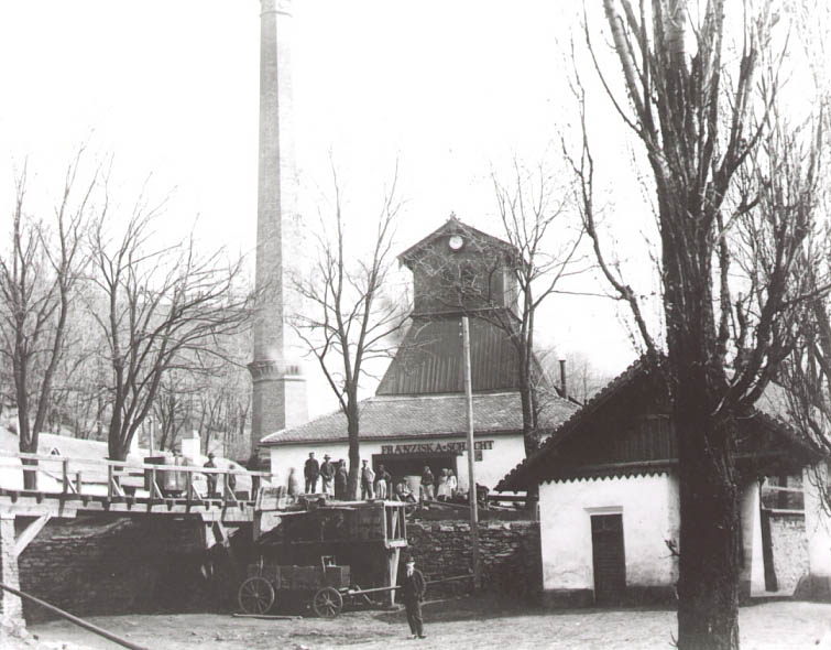 Františka Mine, Padochov, Oslavany, Czech Republic